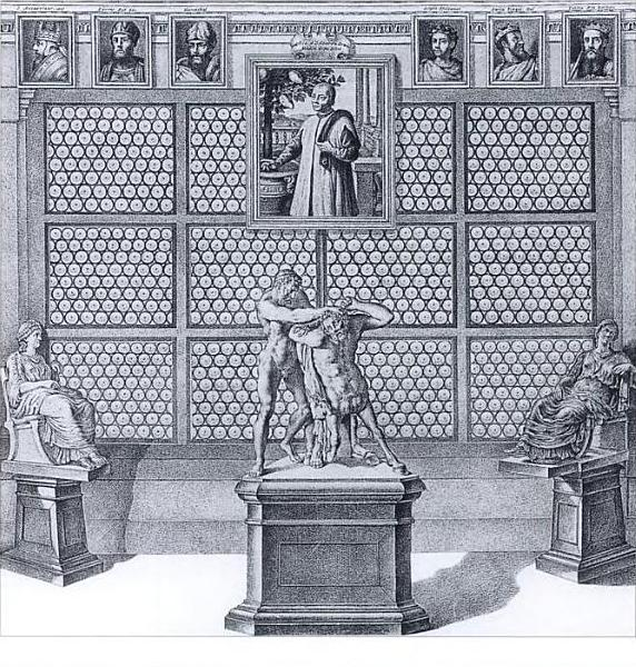 End wall of the first corridor - Uffizi Gallery